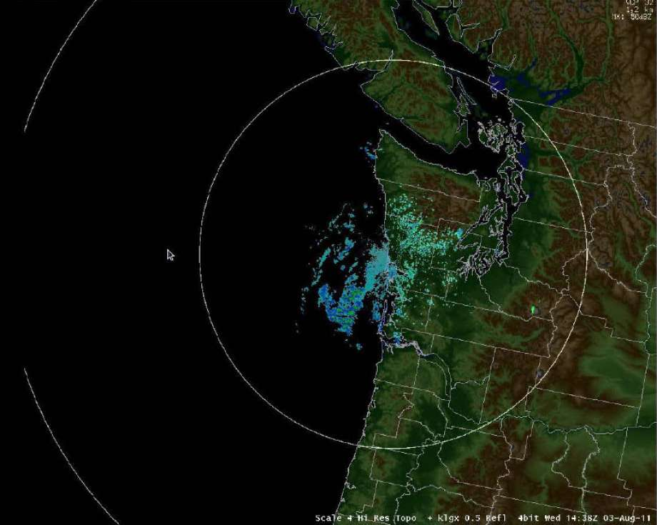 One of the first reflectivity images created using the Langley Hill NEXRAD weather radar, during system calibration and testing